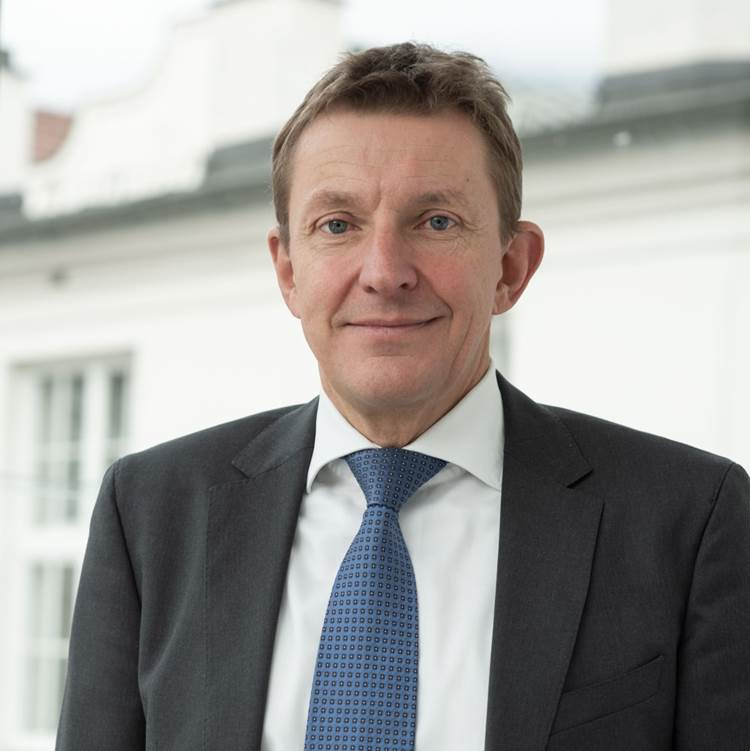 University Professor Werner Schroeder, Director of the Institute for European Law and International Law at the University of Innsbruck.